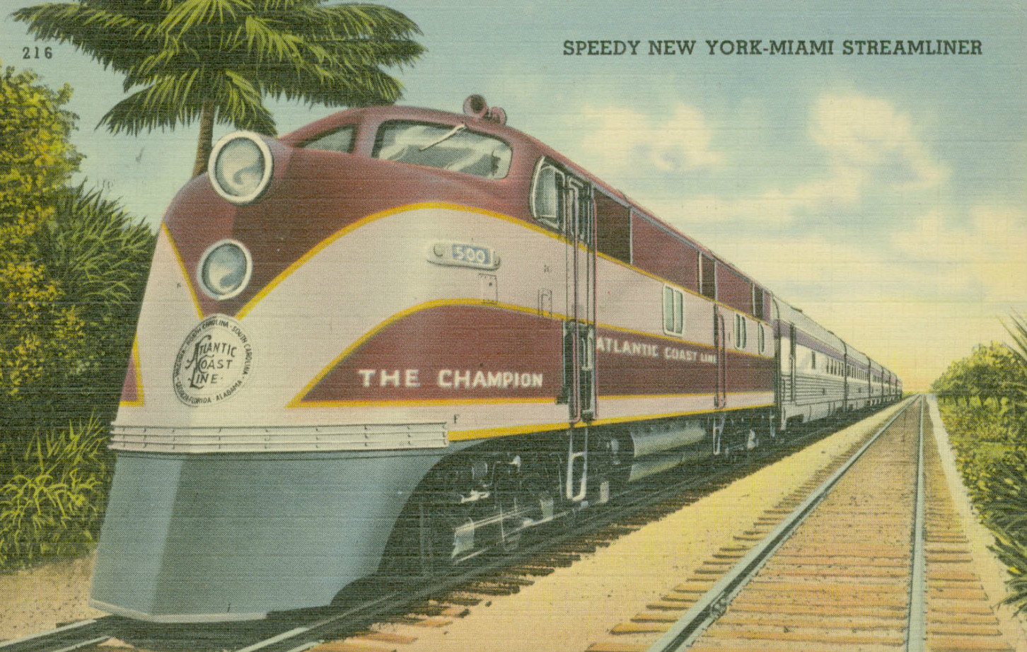 Postcard depiction of Atlantic Coast Line Railroad's train "The Champion", which traveled between New York City and Miami.